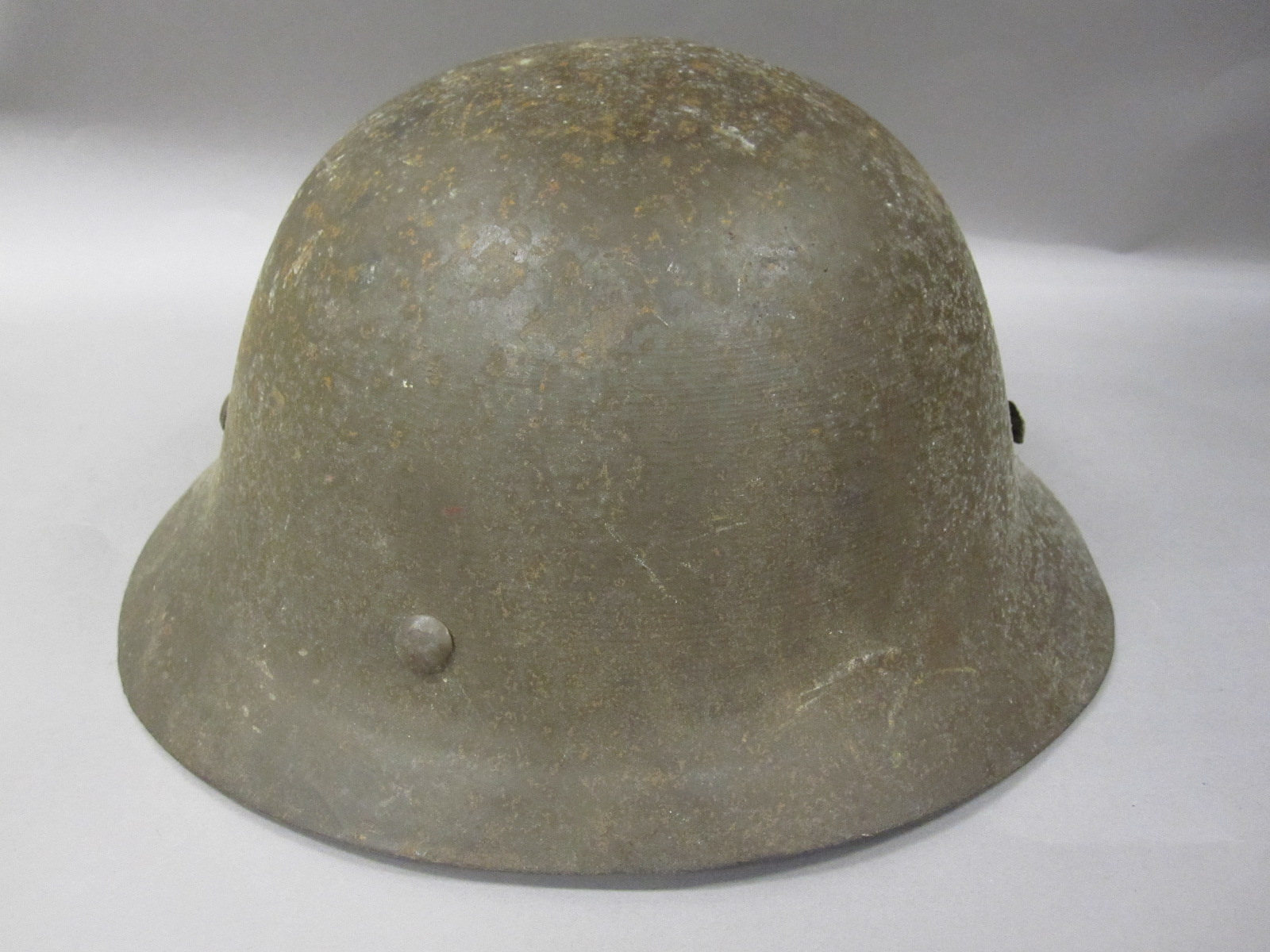 Accession: 81-209-S Uniform, Helmet, Japanese 5.5H" x 11Dia" Helmet, Japanese, World War II. Helmet has web lining and Japanese script. Collection of Curator Branch, Naval History and Heritage Command.